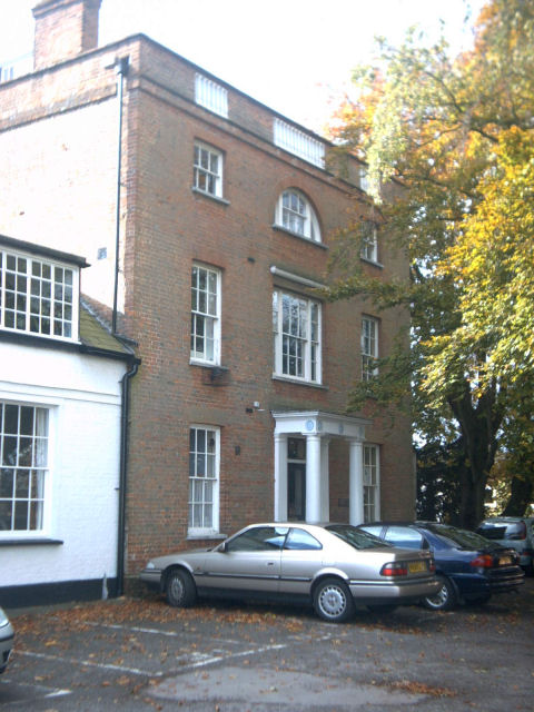 Ardenham House on Buckingham Street in Aylesbury, Buckinghamshire, England.